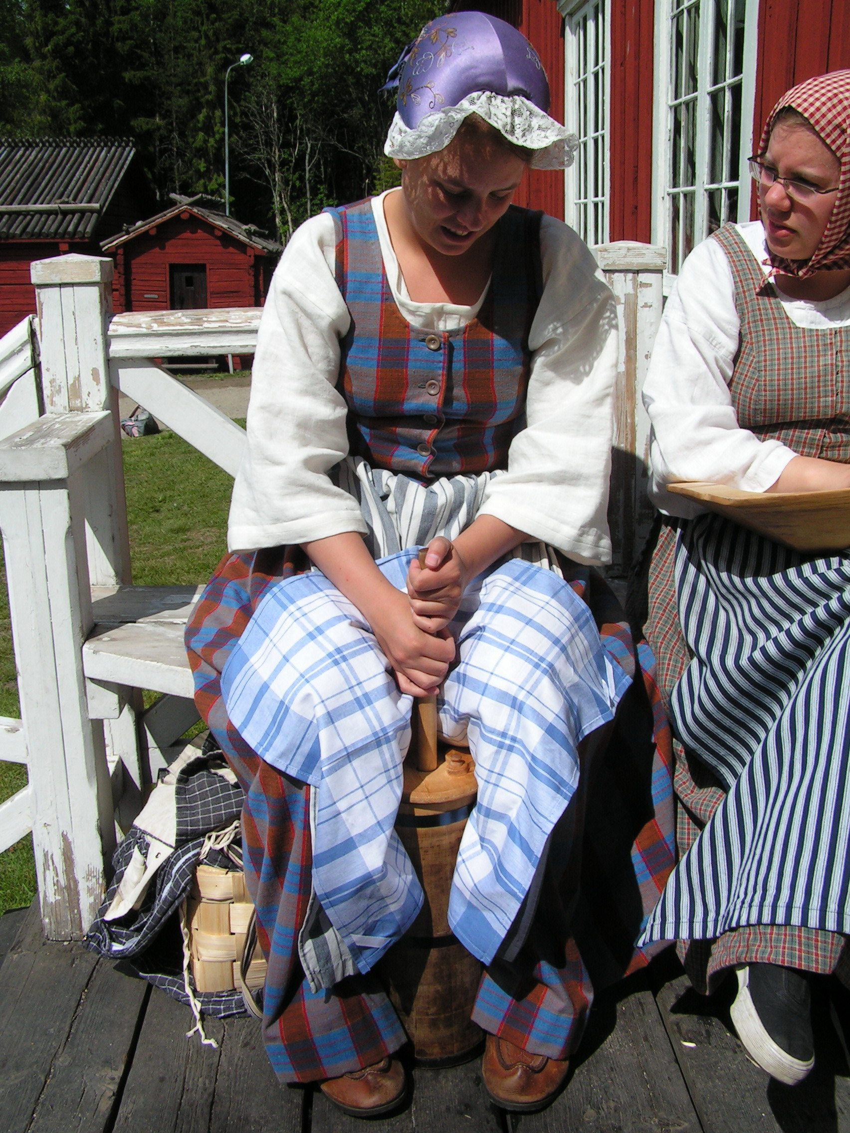 Traditional butter churning at Gammlia open air museum, Umeå, Sweden